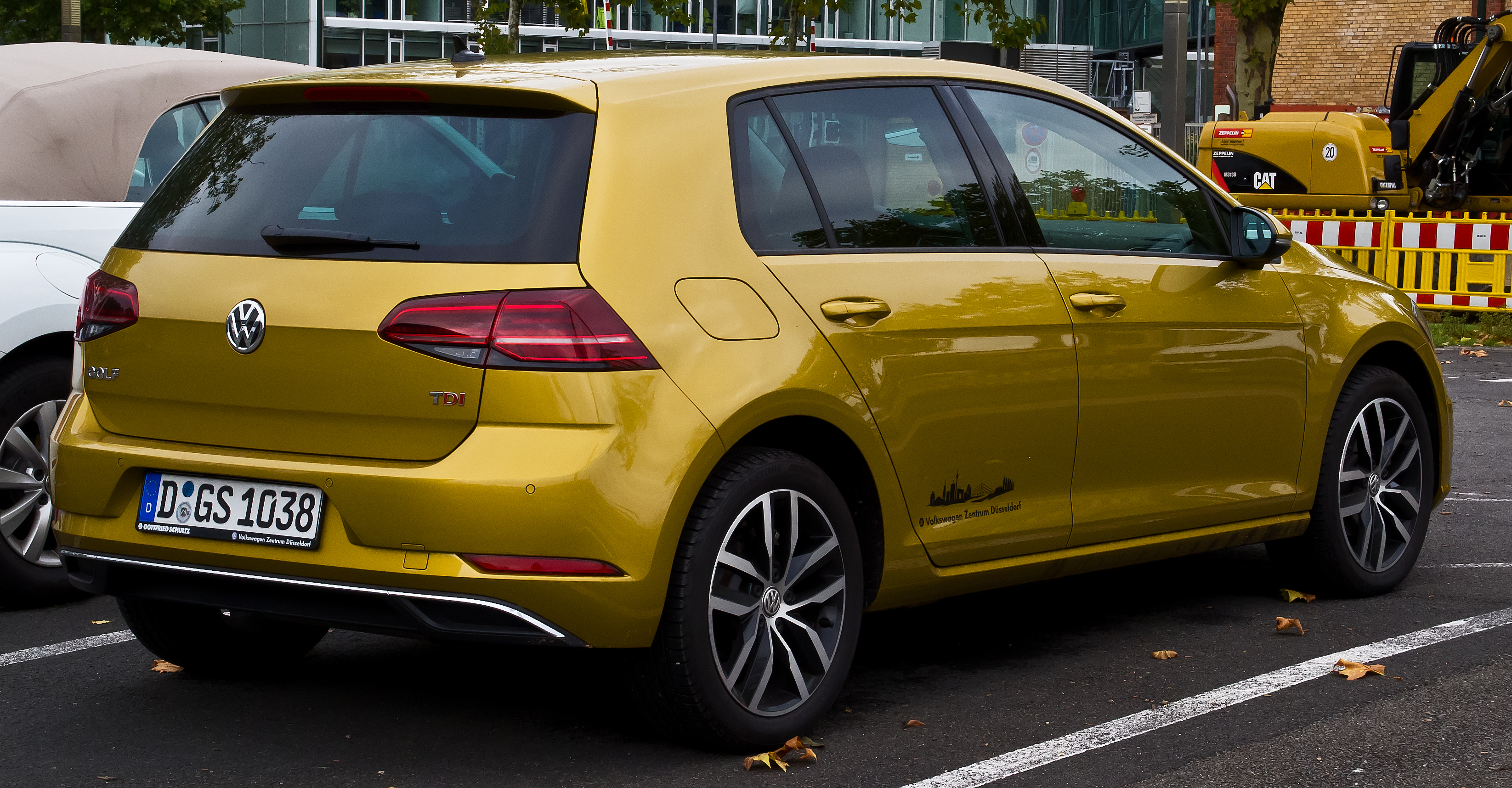 VW Golf 2.0 TDI Highline (VII, Facelift)